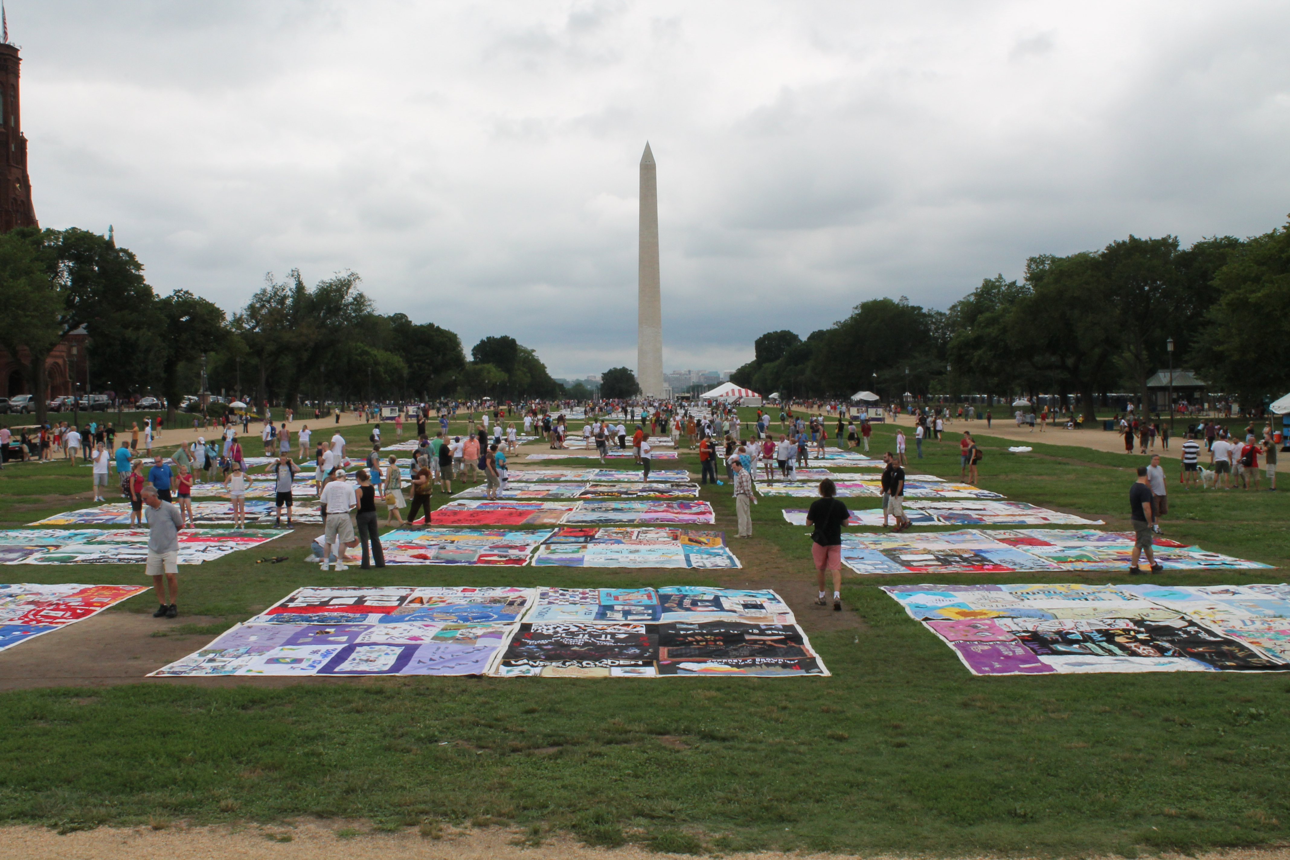 AIDS Quilt at 2012 International AIDS Conference in Washington DC